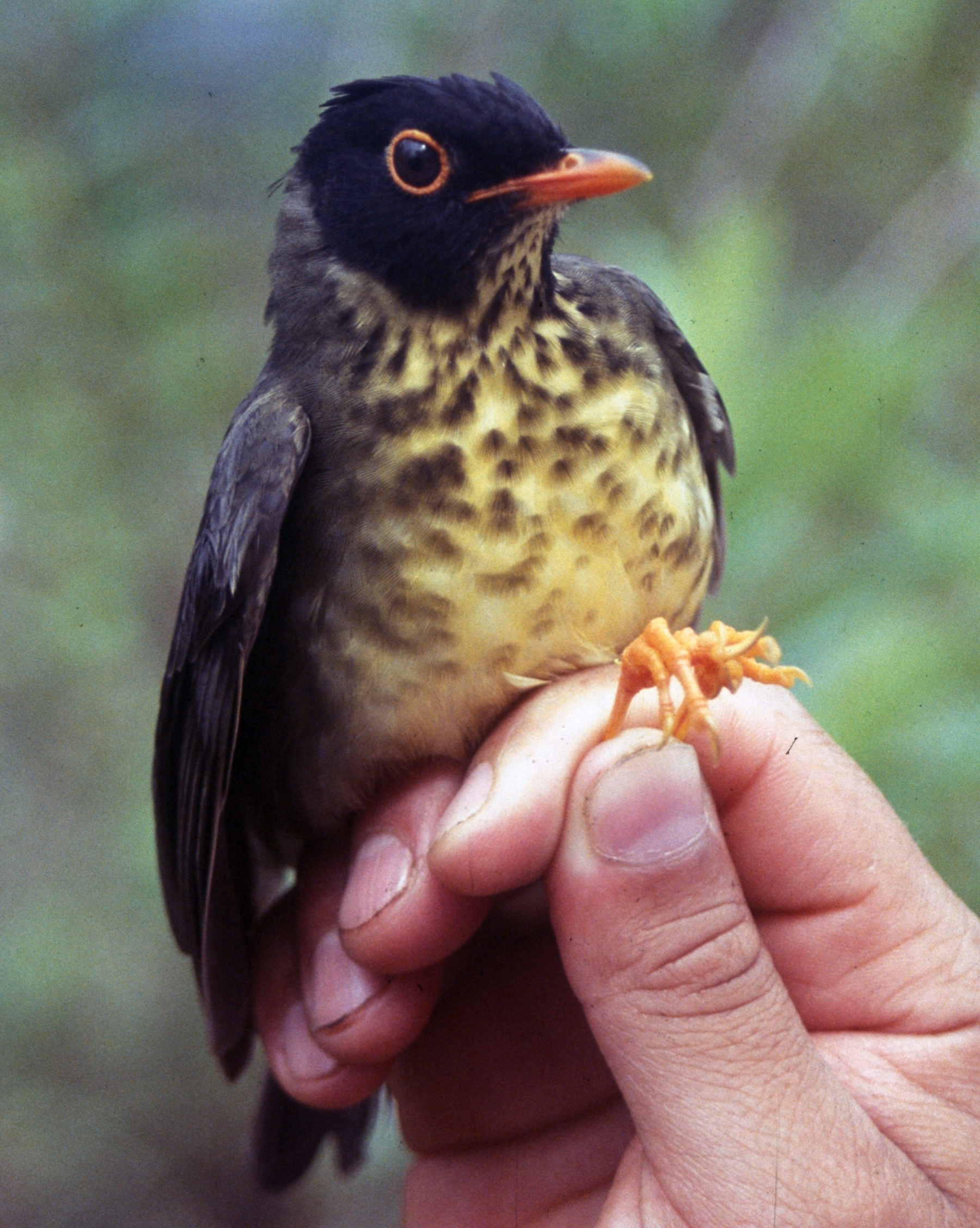 Sclater's Nightingale-thrush (Catharus maculatus) from Ecuador